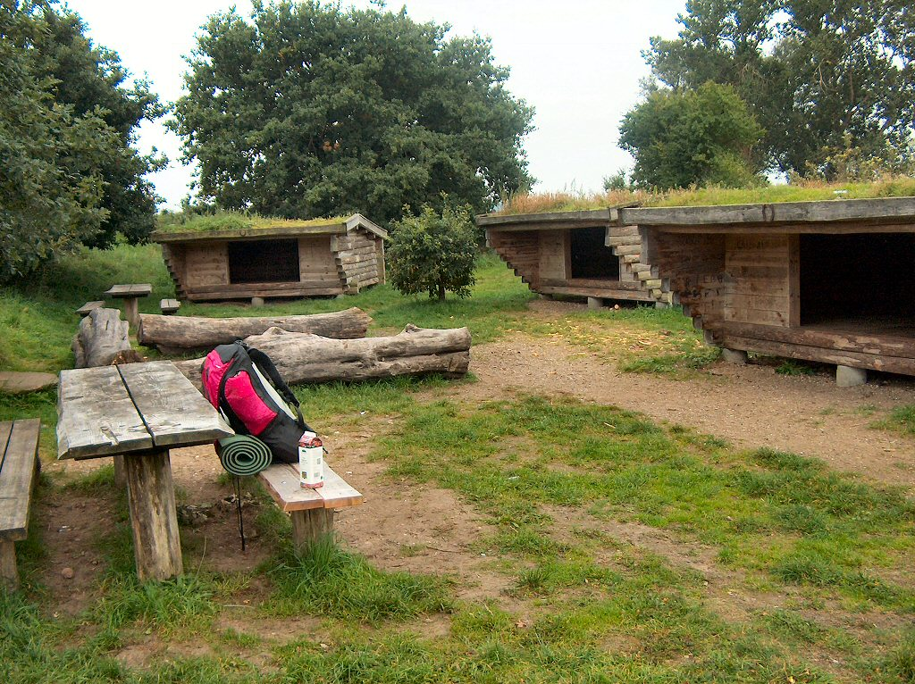 Resting place near Lundum on the nature path Horsens-Silkeborg, Denmark